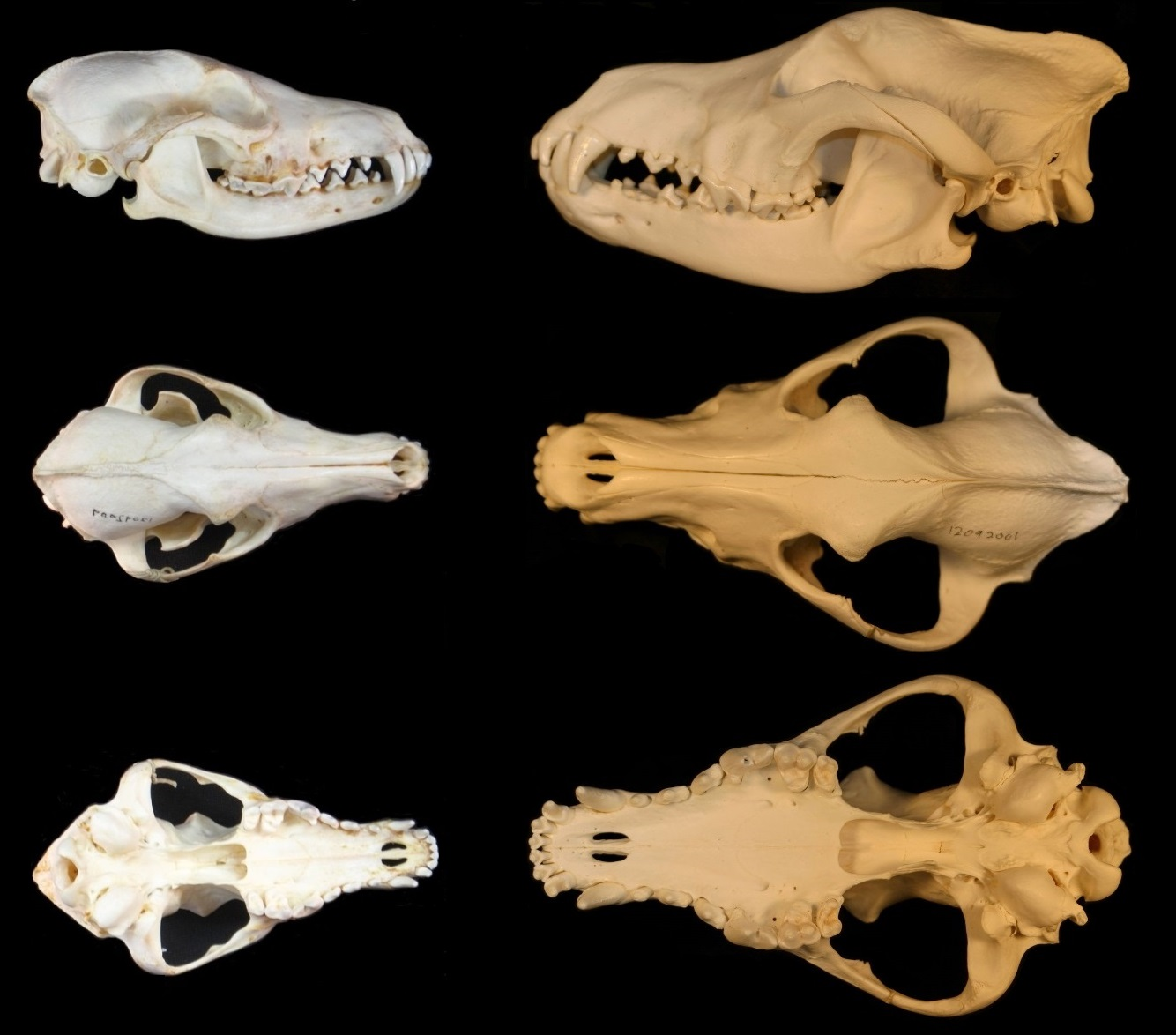 Canis mesomelas & Canis lupus